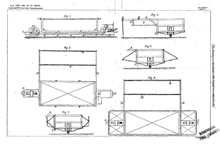 Henry Jules Caillet - Improvements in the Rolling Stock and Permanent Way of Single Rail Railways - GB189629501 (A) of 1897-11-13